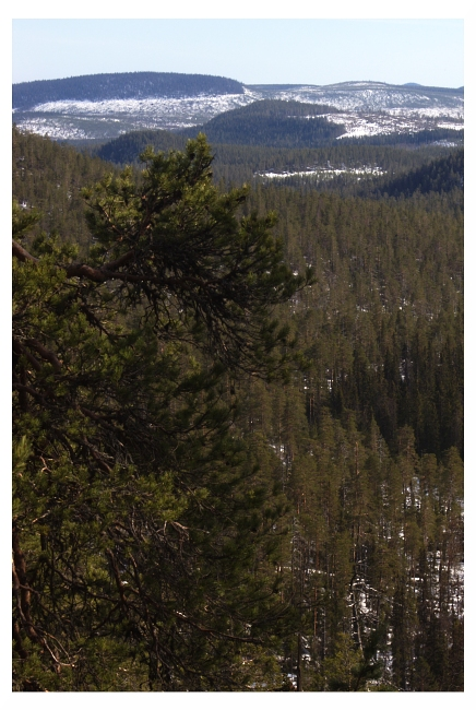 Landscape in the Björnland national park